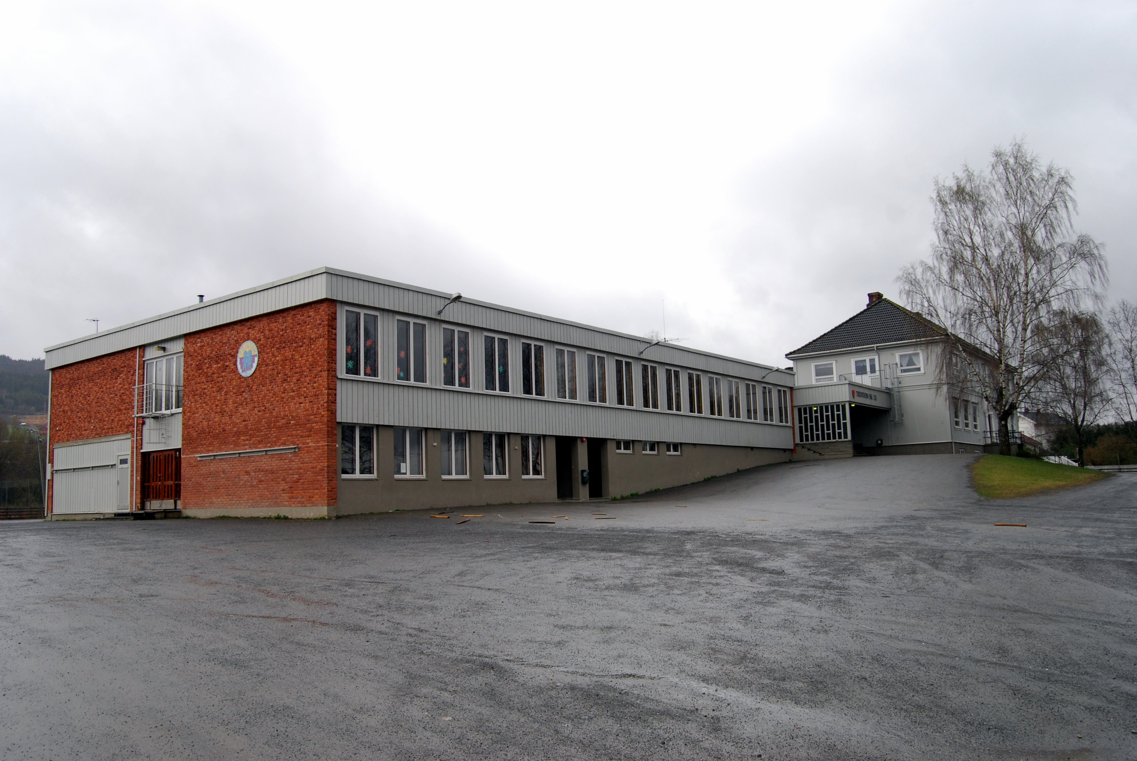 Trintom lower secondary school, Gran, Oppland, Norway.